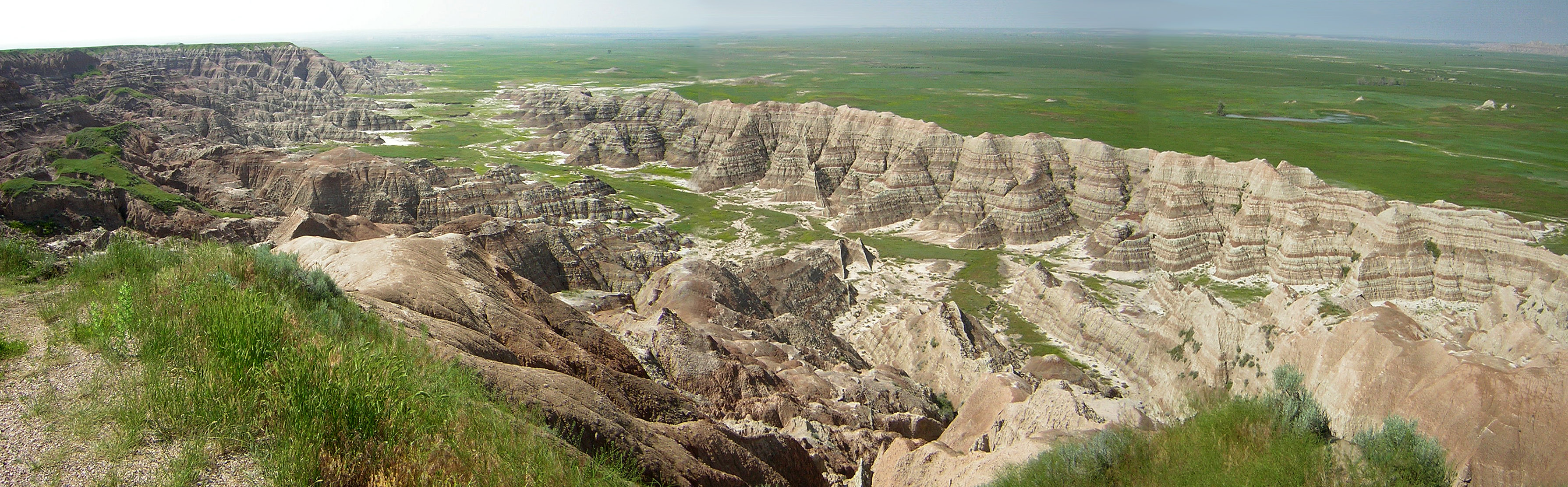 A panorama of Badlands National Park in South Dakota. Stitched together from separate photos in Photoshop.